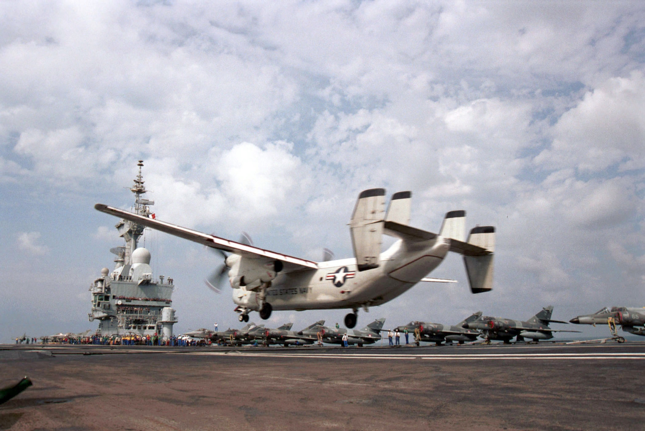 Aboard the French aircraft carrier Charles de Gaulle (R 91) 16 February 2002 -- A U.S. Navy C-2A “Greyhound” from the "Rawhides" of Fleet Logistics Support Squadron 40 (VRC-40) lands on the flight deck of the French aircraft carrier amid French “Super Etendard” carrierborne strike fighters, during joint exercises with the French Navy. The C-2A was attached to the USS Theodore Roosevelt (CVN-71). Both carriers were deployed in support of Operation Enduring Freedom.